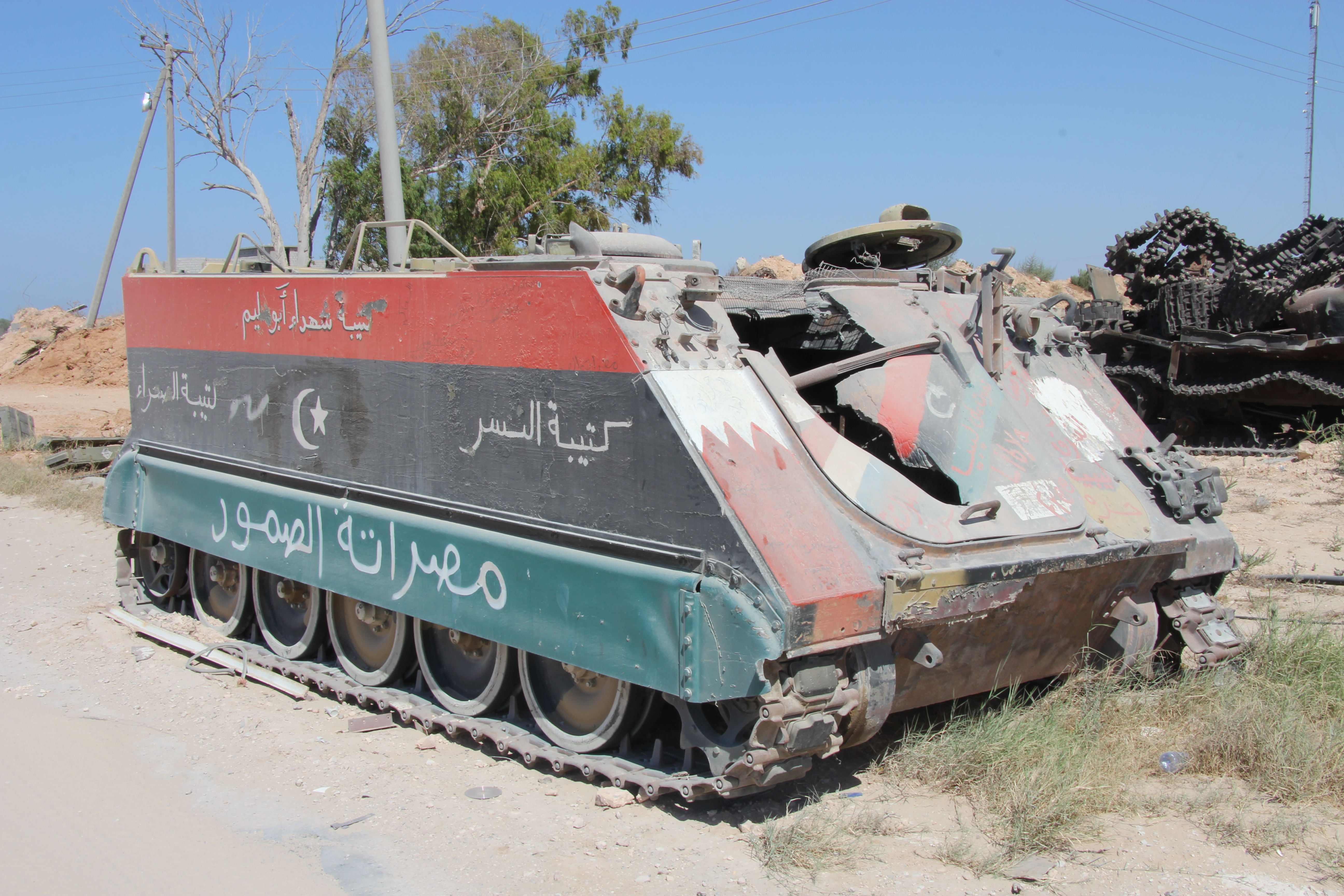 Tanks outside of Misrata (4)